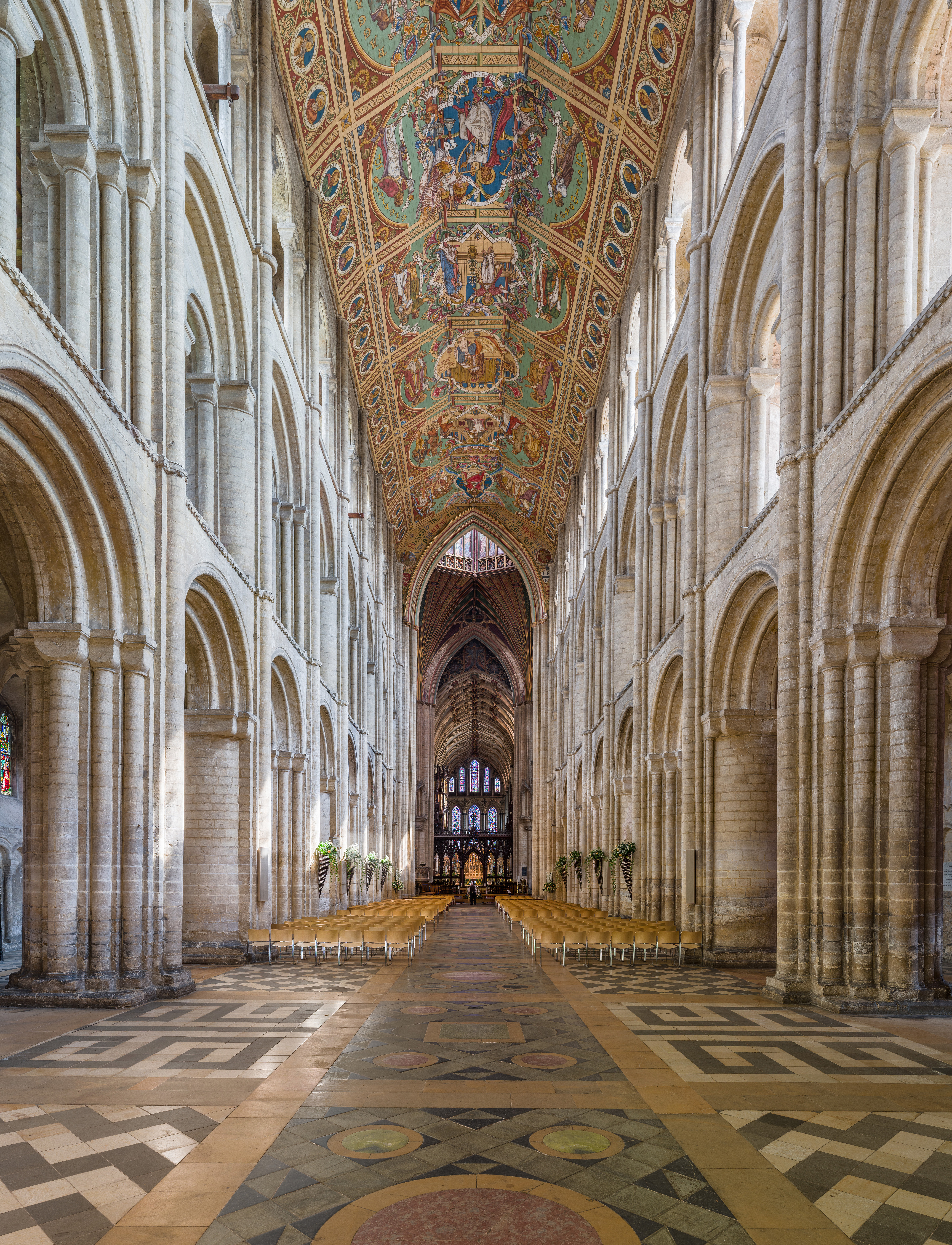 The nave of Ely Cathedral, Cambridgeshire, England.